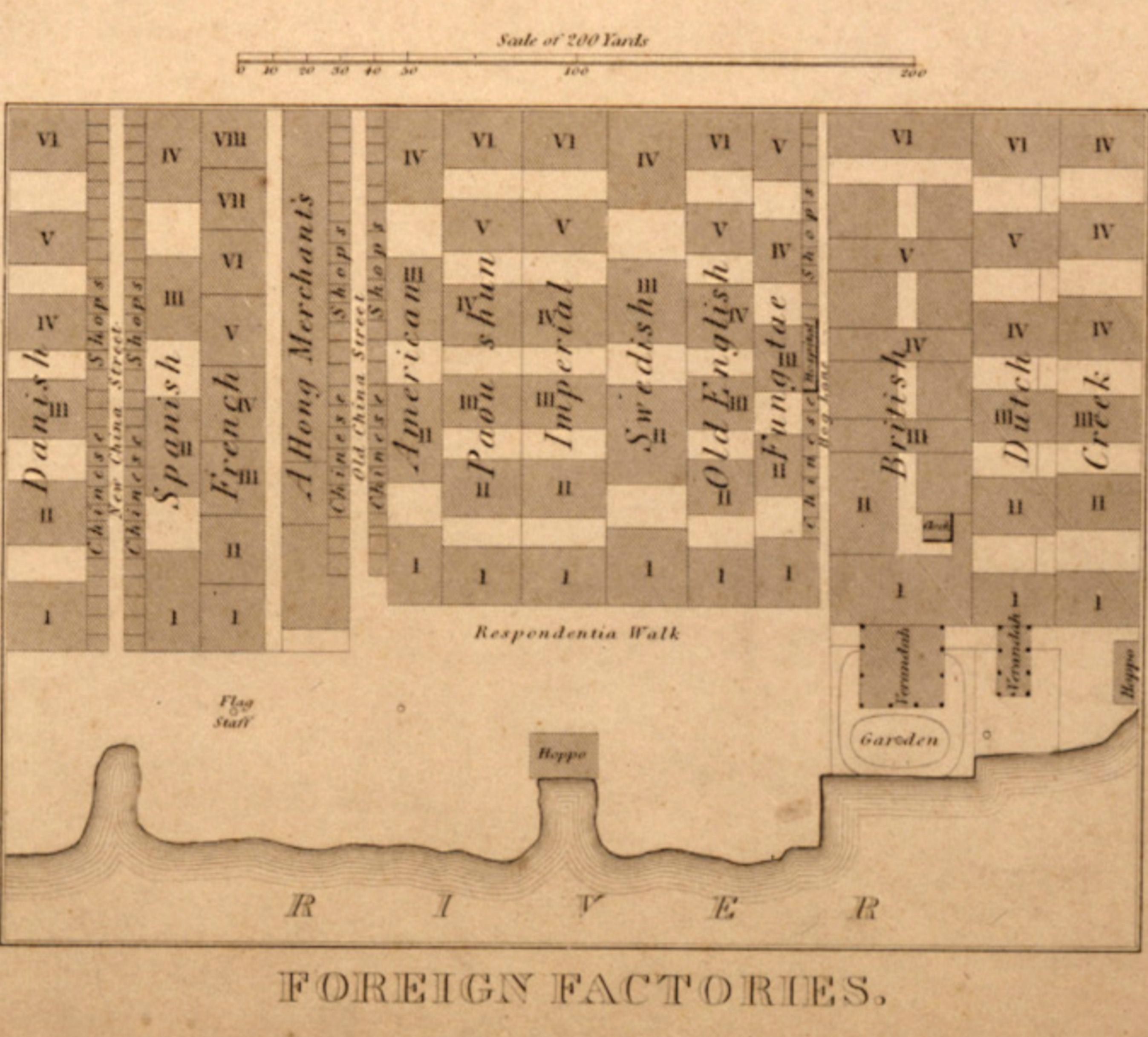 Map of the Thirteen Factories of Guangzhou in the Qing Empire in 1840, prior to their destruction by fire the next year during the First Opium War."Imperial" refers to the Austrian Empire.